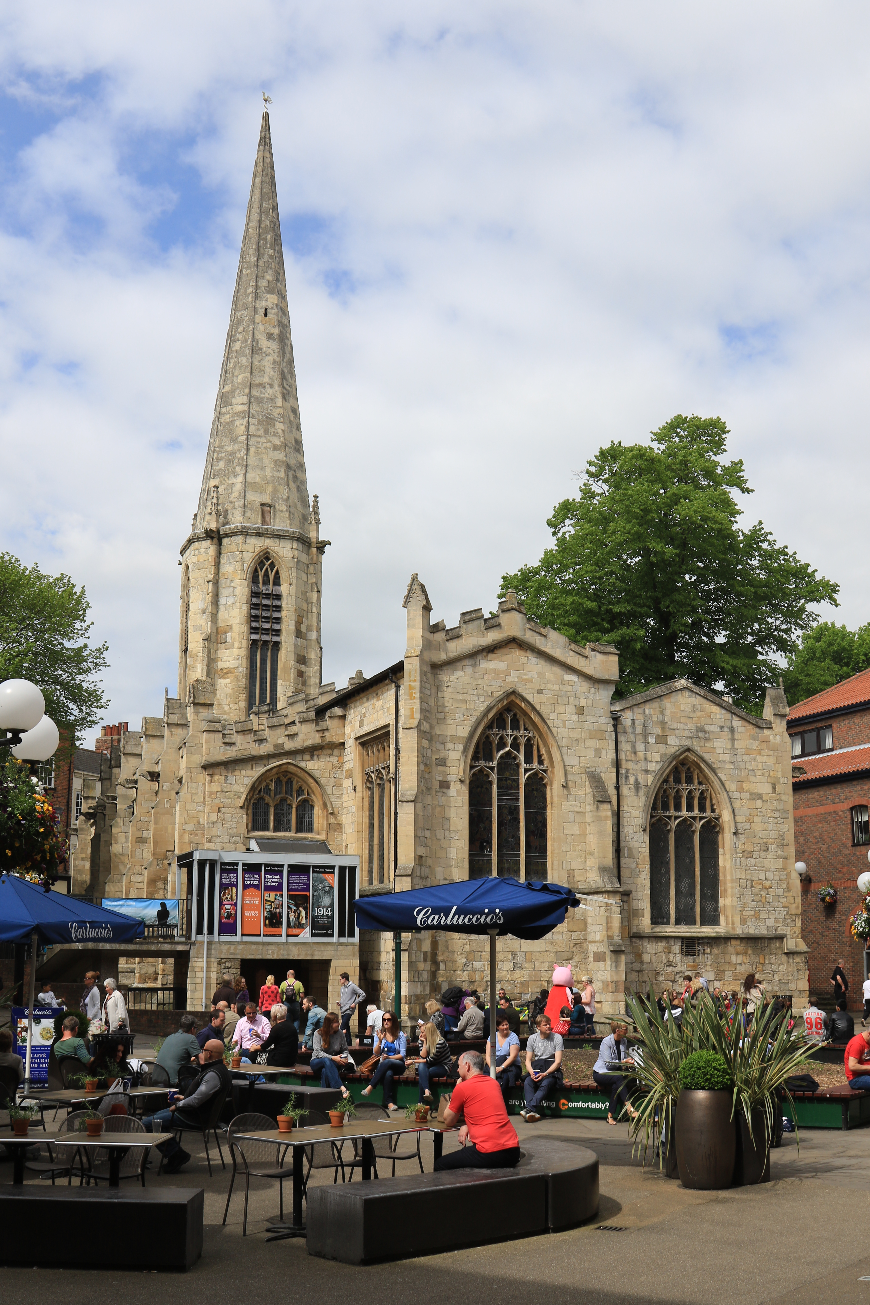 The former church of St Mary in York